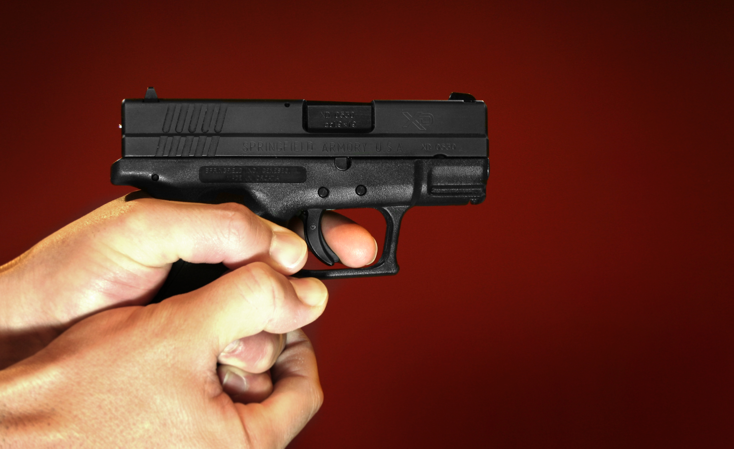 Black Springfield XD 9mm Luger handgun with red background